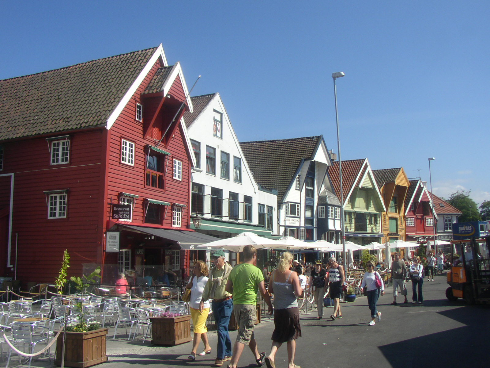 Traditional area of city of Stavanger in Norway, close to its harbour.